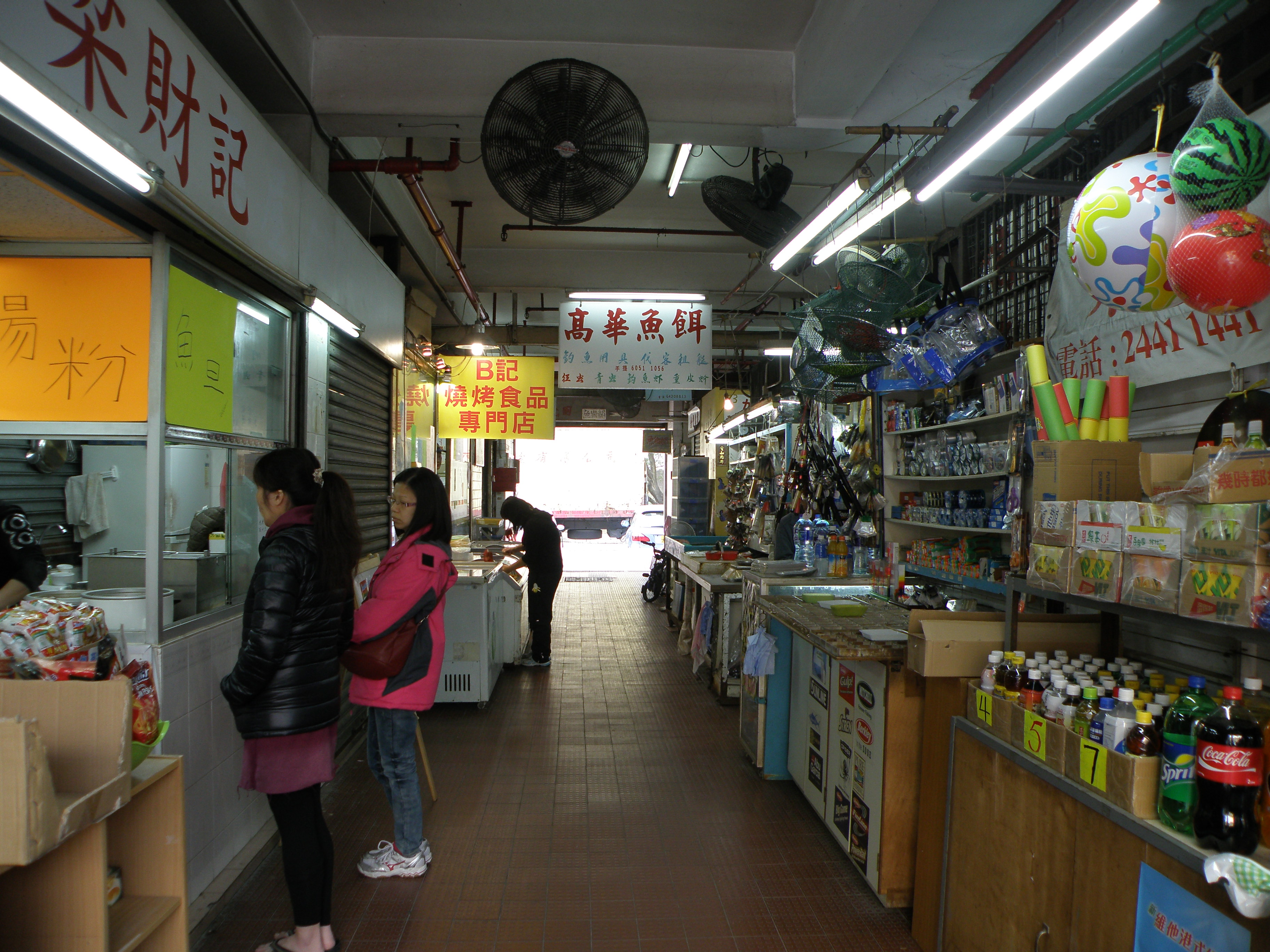 Melody Garden Market in Tuen Mun, Hong Kong.